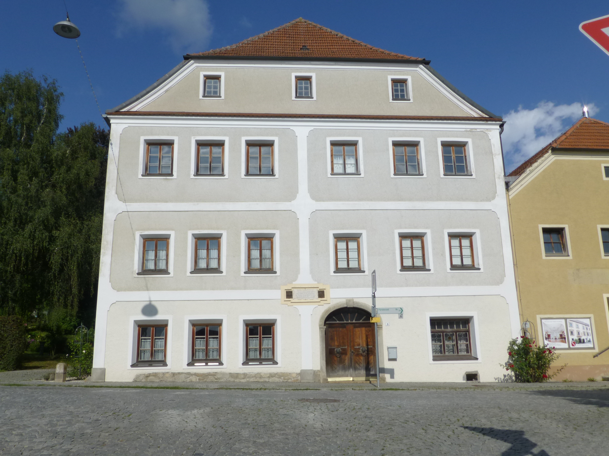 Building in Ortenburg, Lower Bavaria.